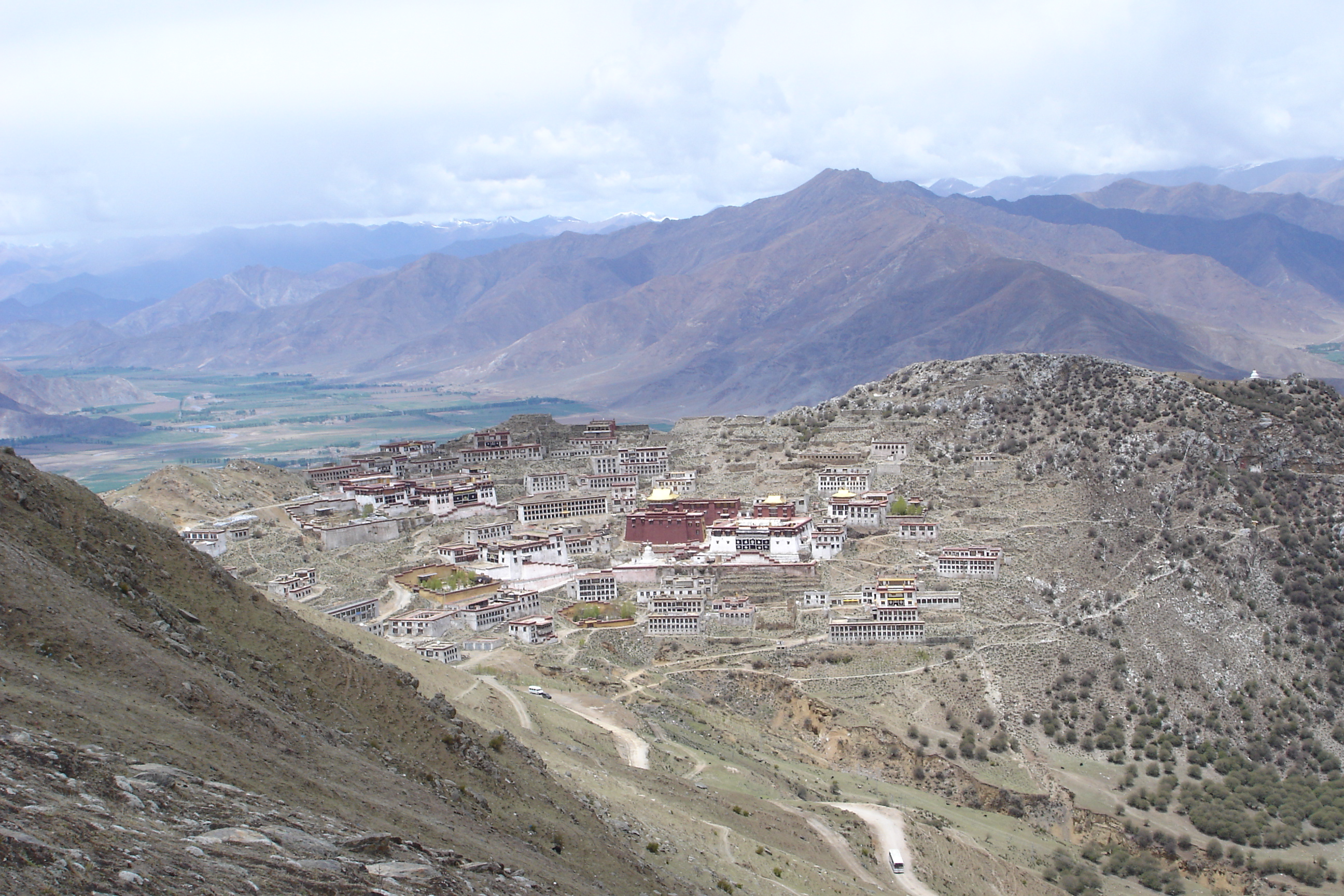 Ganden monastery (Tibet Autonomous Region, People's Republic of China).